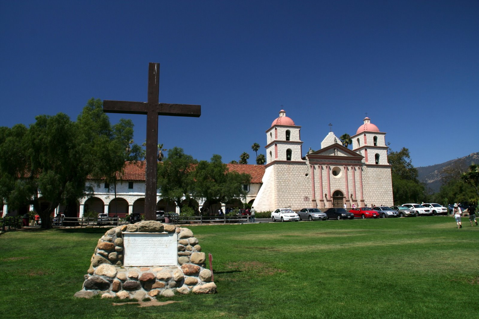 [Image underneath is of Mission Santa Barbara[1